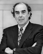 Catedratico at Universidad Autonoma de Madrid